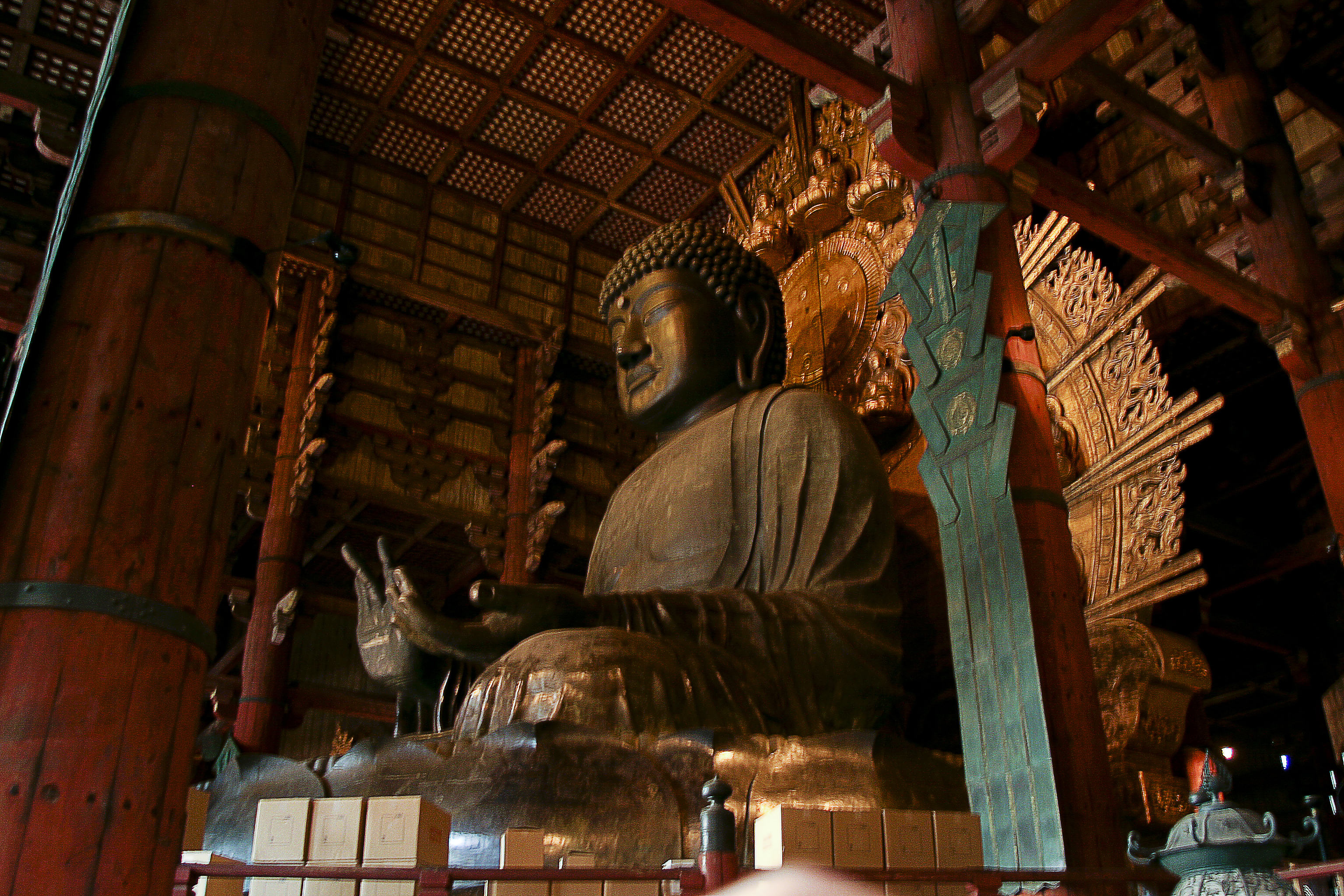 Daibutsu of Todaiji